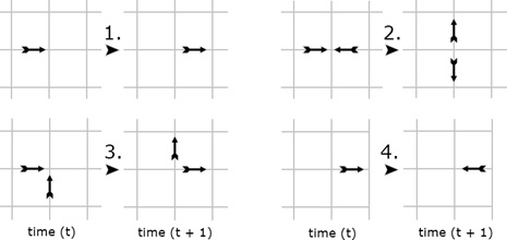 An example of four rules in the HPP Model.